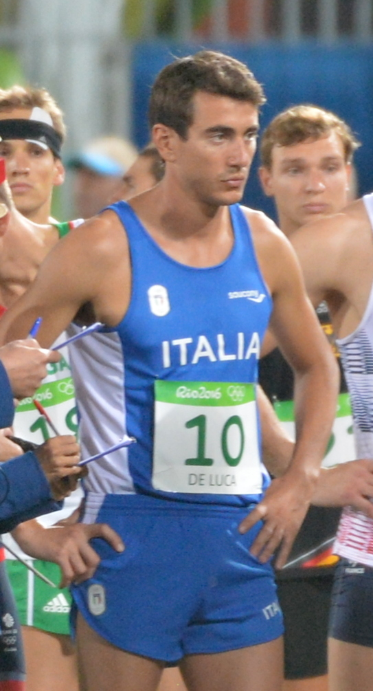 Men's Modern Pentathlon event Aug. 20 at the Rio Olympic Games in Rio de Janeiro. U.S. Army photo by Tim Hipps, IMCOM Public Affairs #SoldierOlympians #ArmyOlympians #ArmyTeam #TeamUSA #RoadToRio #ArmyStrong #GoArmy #WCAP #ArmyWCAP